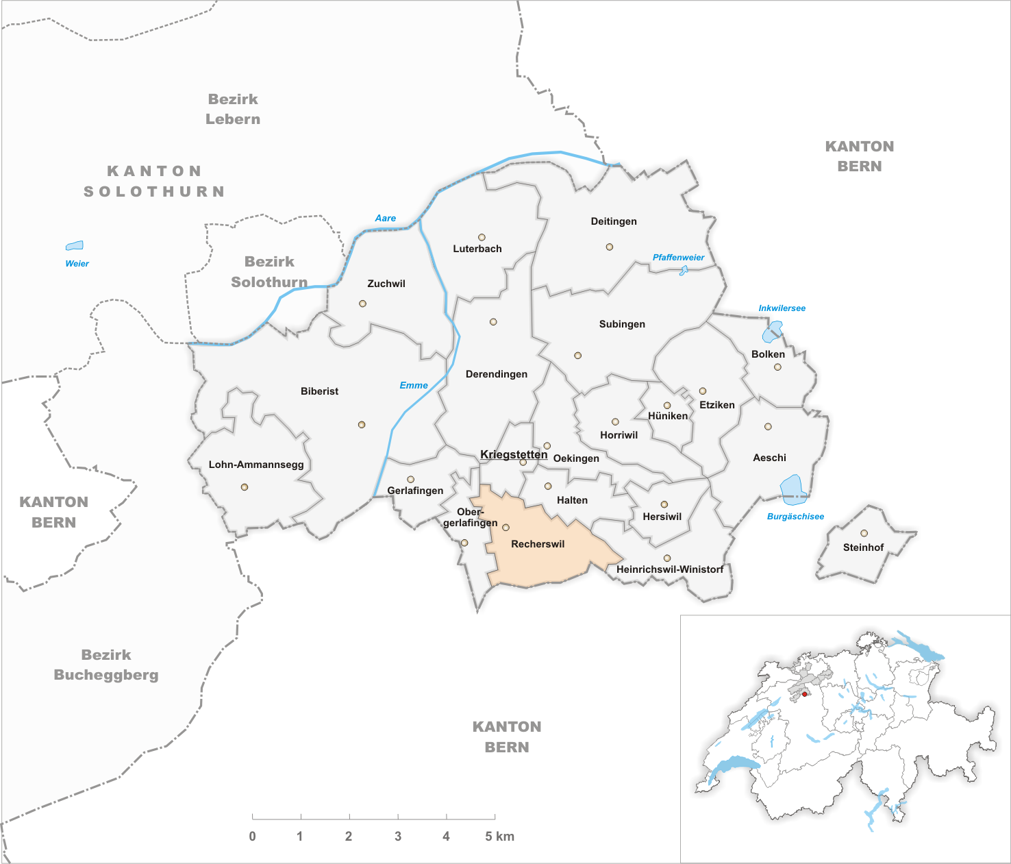 Municipality Recherswil